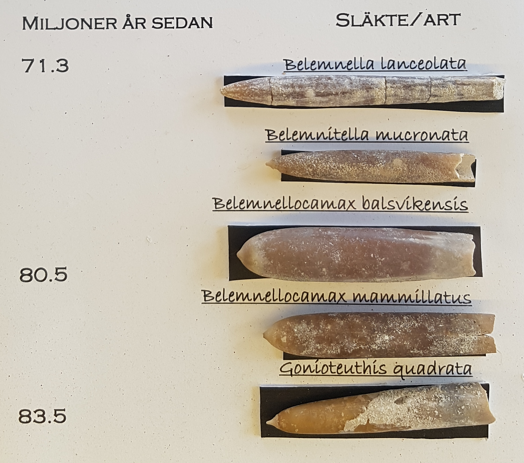 Belemnite fossils, arranged as per their respective biozones in the Kristianstad Basin, all specimens excavated in the Kristianstad Basin and exhibited at the "Havsdrakarnas hus" exhibition in Bromölla, Sweden.